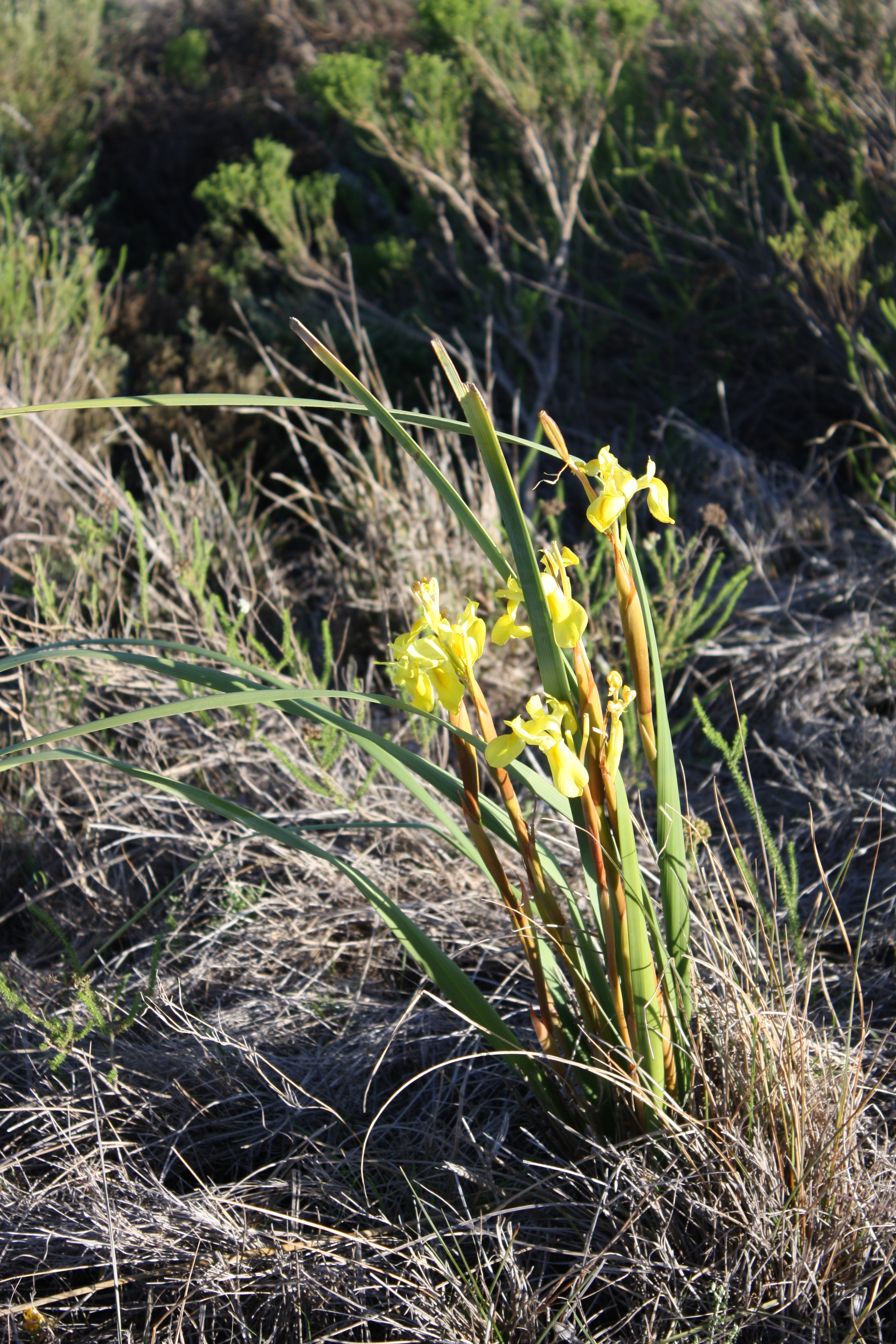 Moraea spathulata